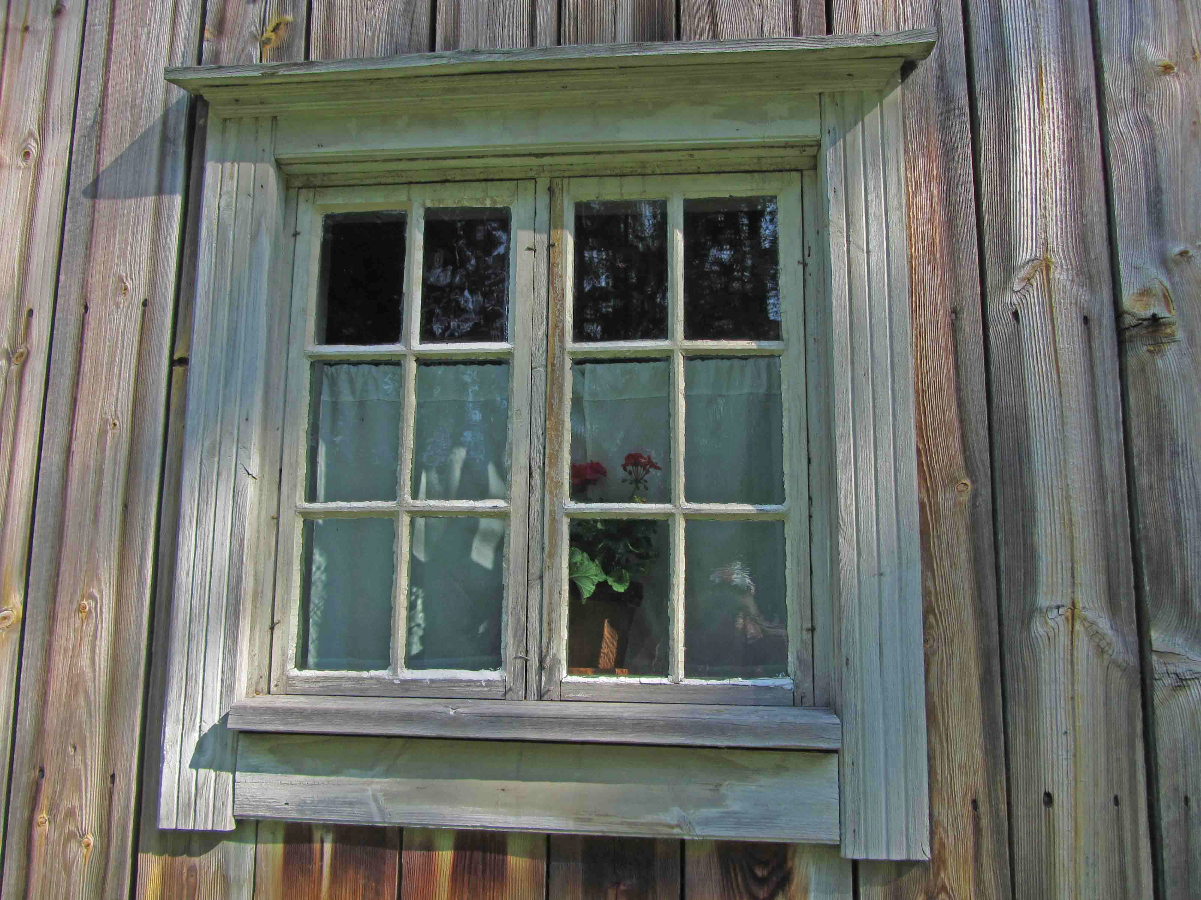 A window of the cottage in which the Finnish national writer Aleksis Kivi died in 1872